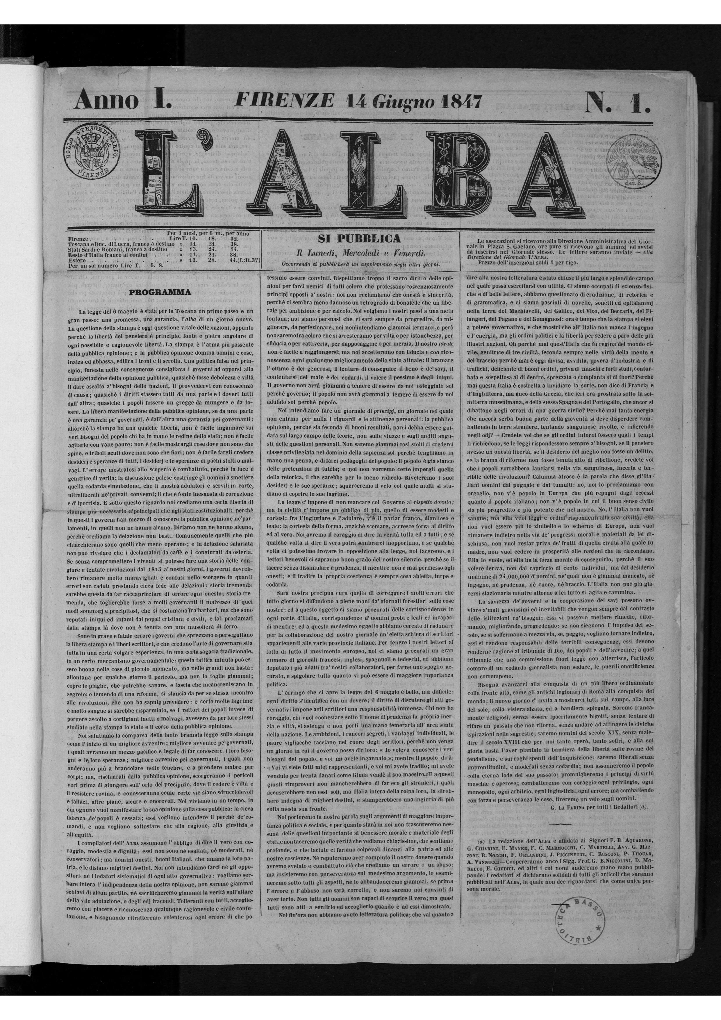 first page of risorgimental newspaper L'Alba, n°1 14 june 1847